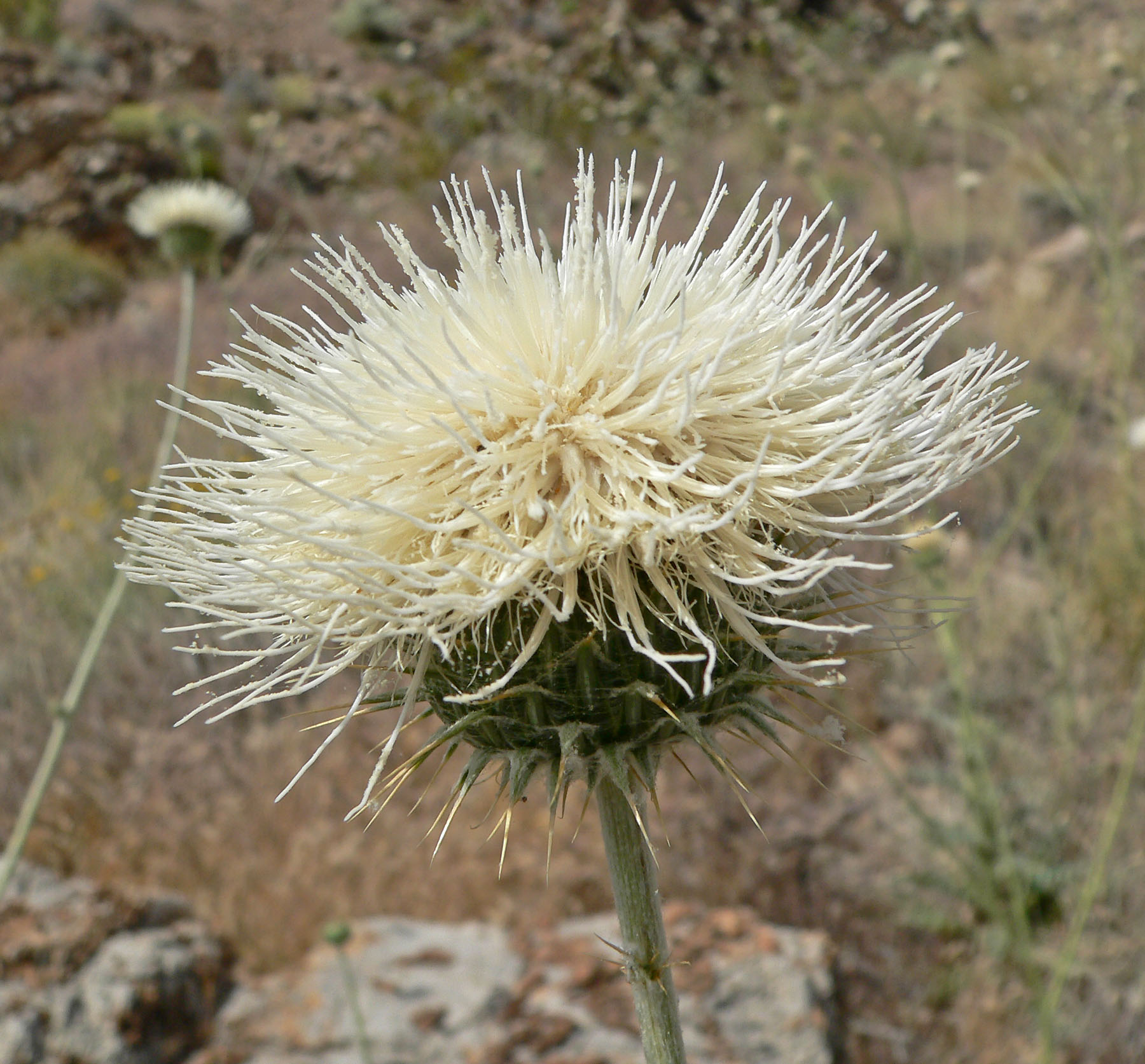 Photo of Cirsium neomexicanum on hillside west of Las Vegas, Nevada, just outside Red Rock Canyon